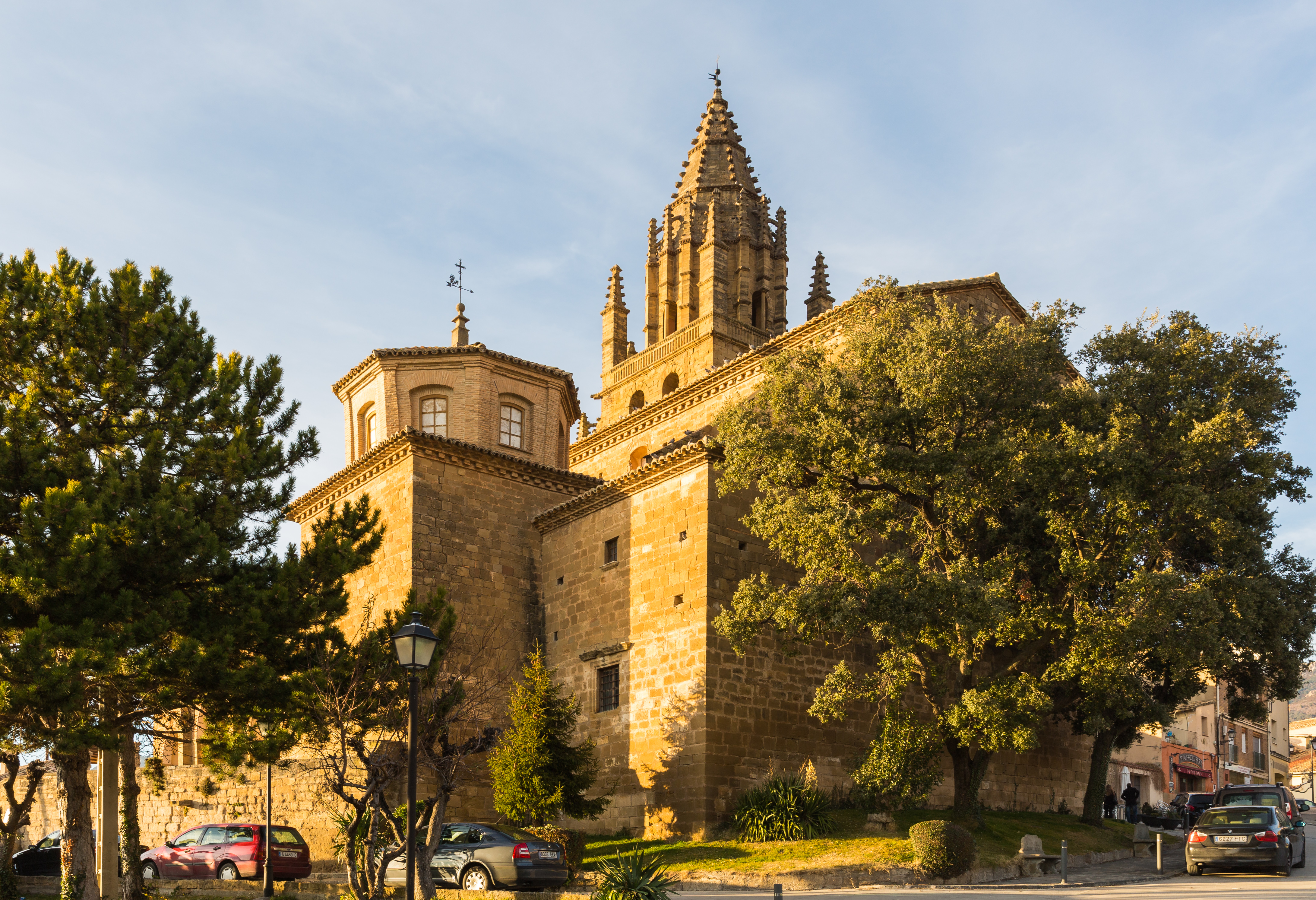 Church of St Esteban, Loarre, Huesca, Spain